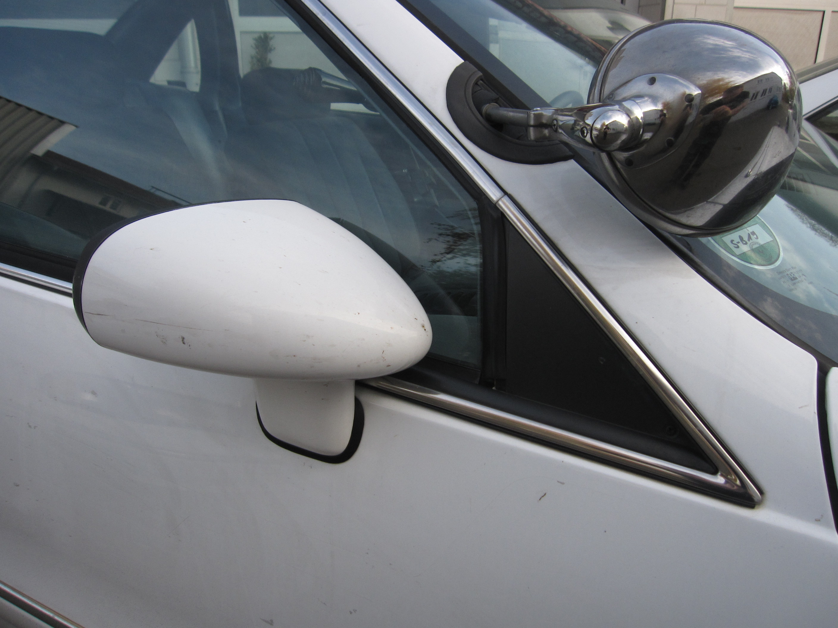 Certain export models used foldable, "break away" type mirrors instead